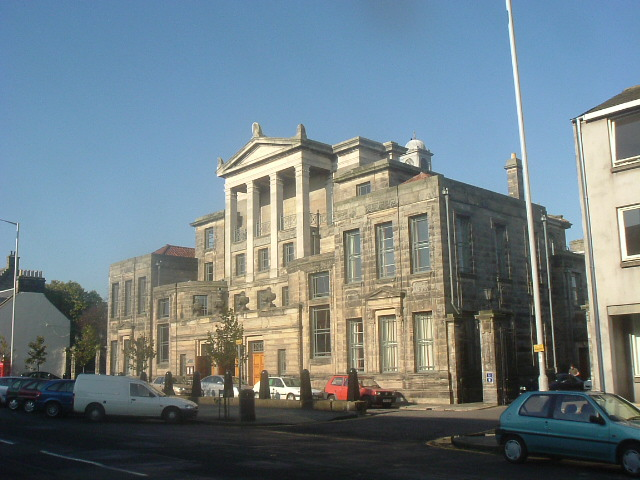 College of Music St Andrews